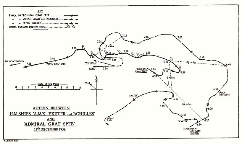 Map show ship movements during the Battle of the River Plate on 13 December 1939.